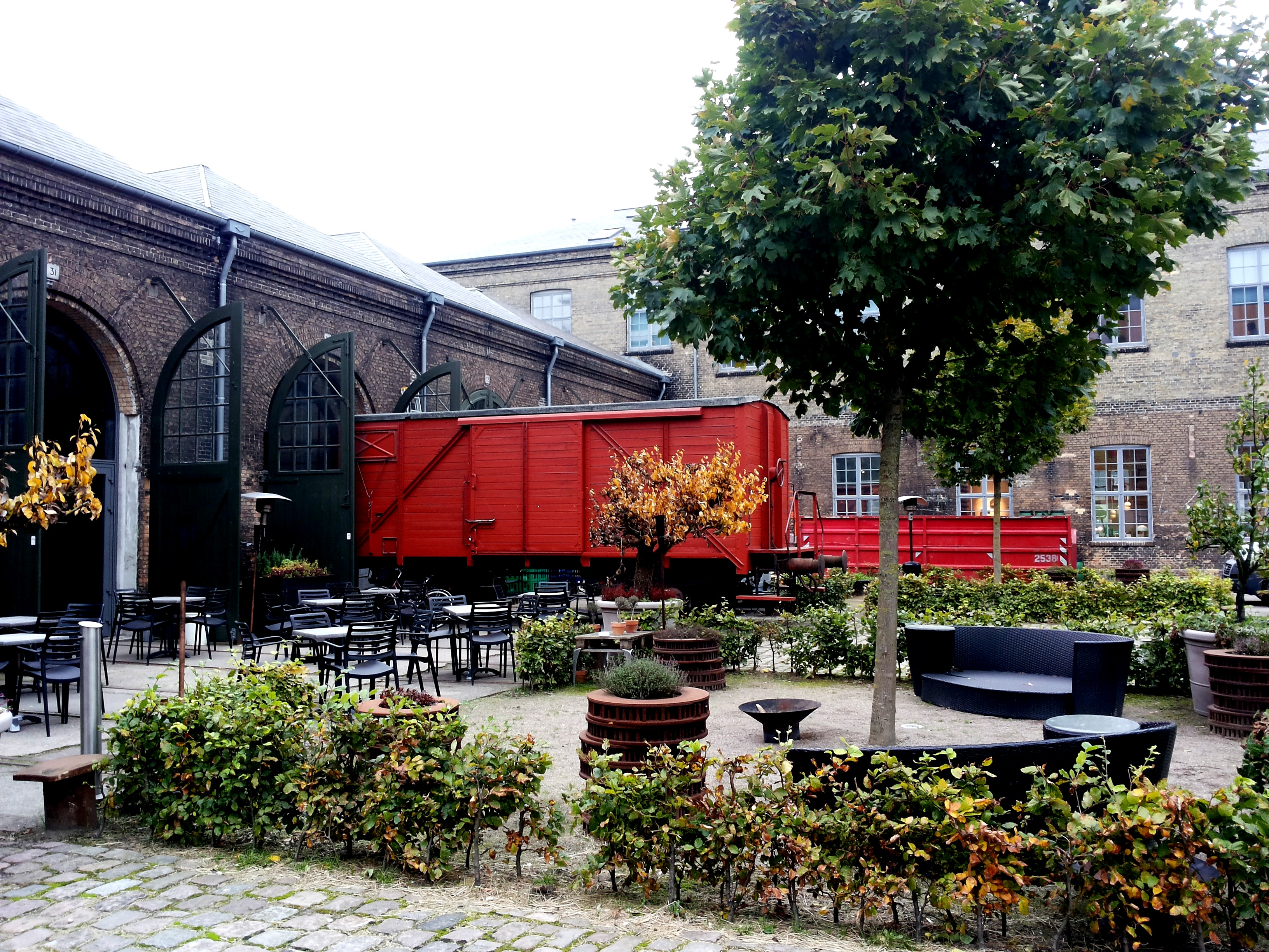 Centralværkstederne